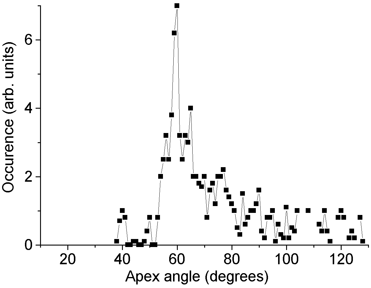 Statistical distribution of the apex values measured over 554 natural-graphite nanocones. Data from (2003). "Naturally occurring graphite cones". Carbon 41 (11): 2085–2092.